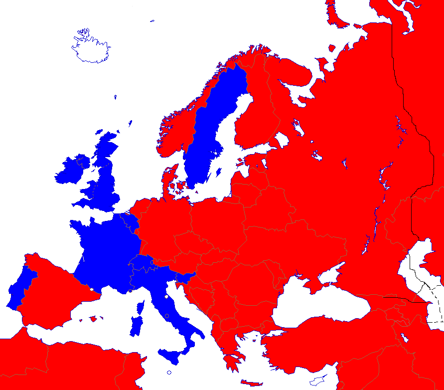 Right- and left-hand traffic on European railways. Right-hand traffic Left-hand traffic No railway